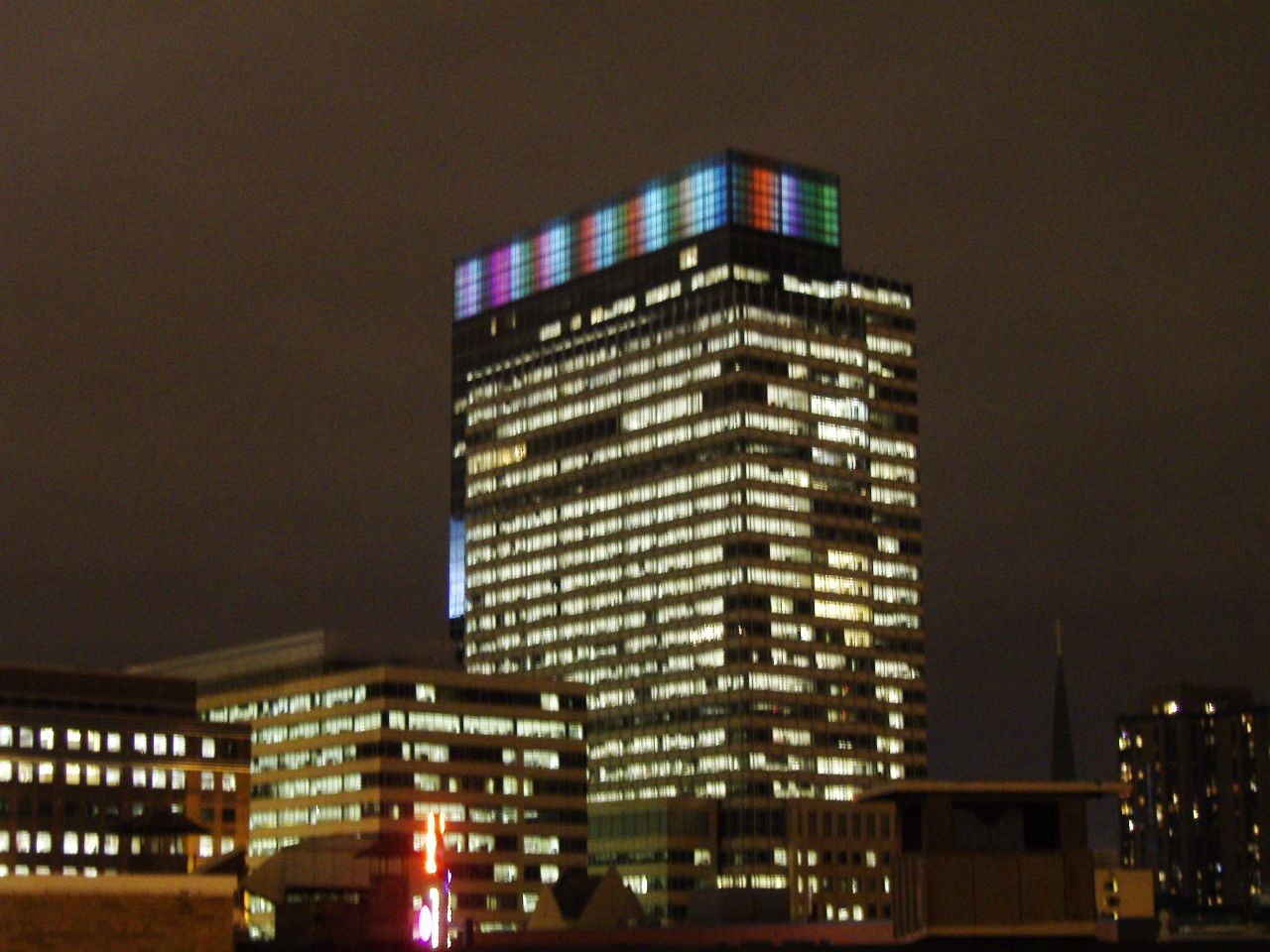 Target Corporation, Minneapolis, Minnesota. Image is cropped.